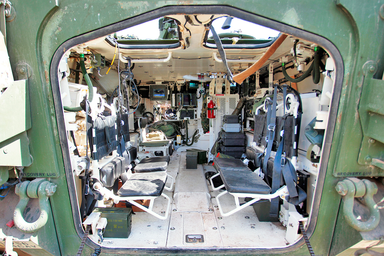 M1126 Infantry Carrier Vehicle (IAV Stryker)